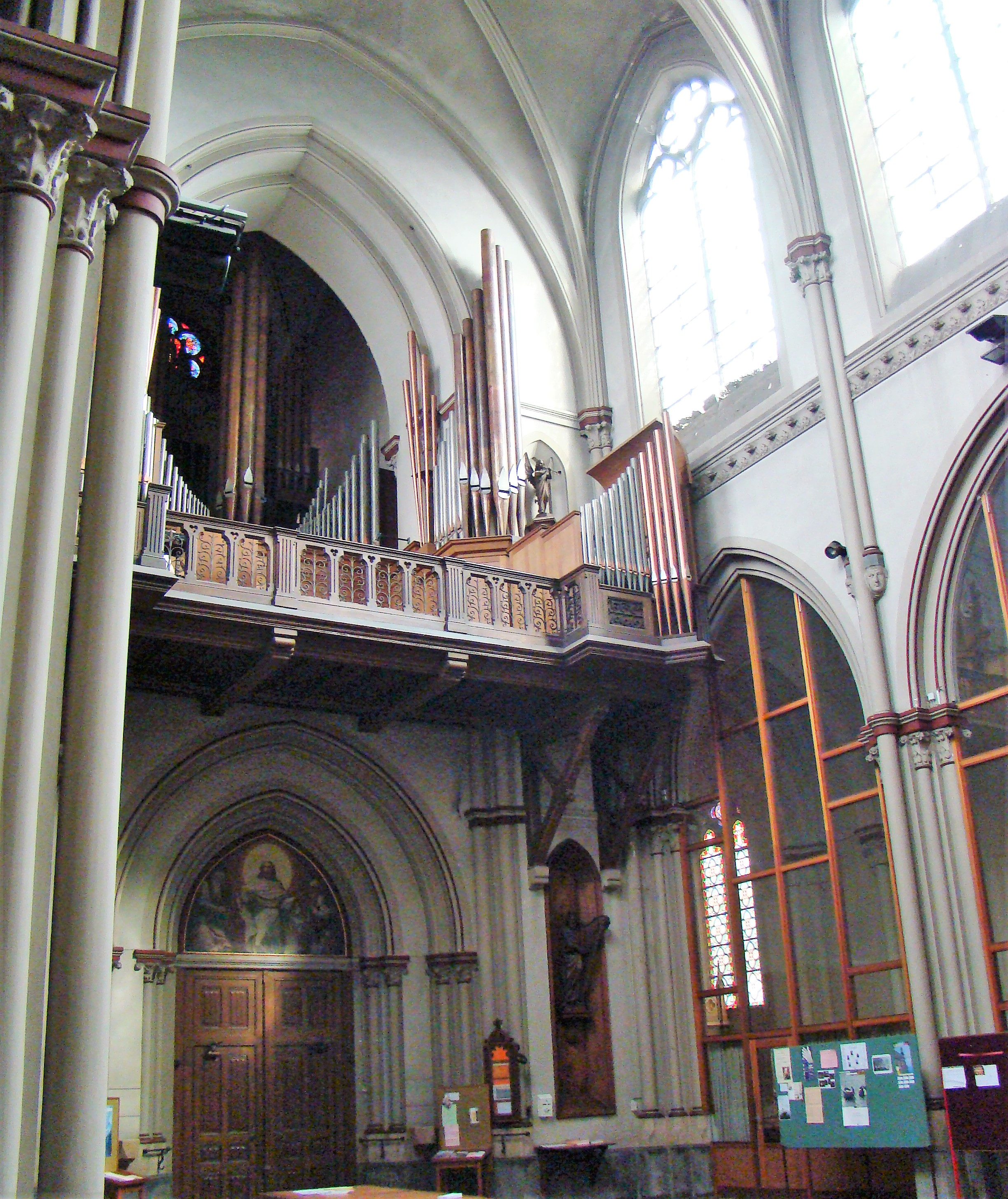 Saint Vaas church, Schaarbeek, Brussels (Belgium)